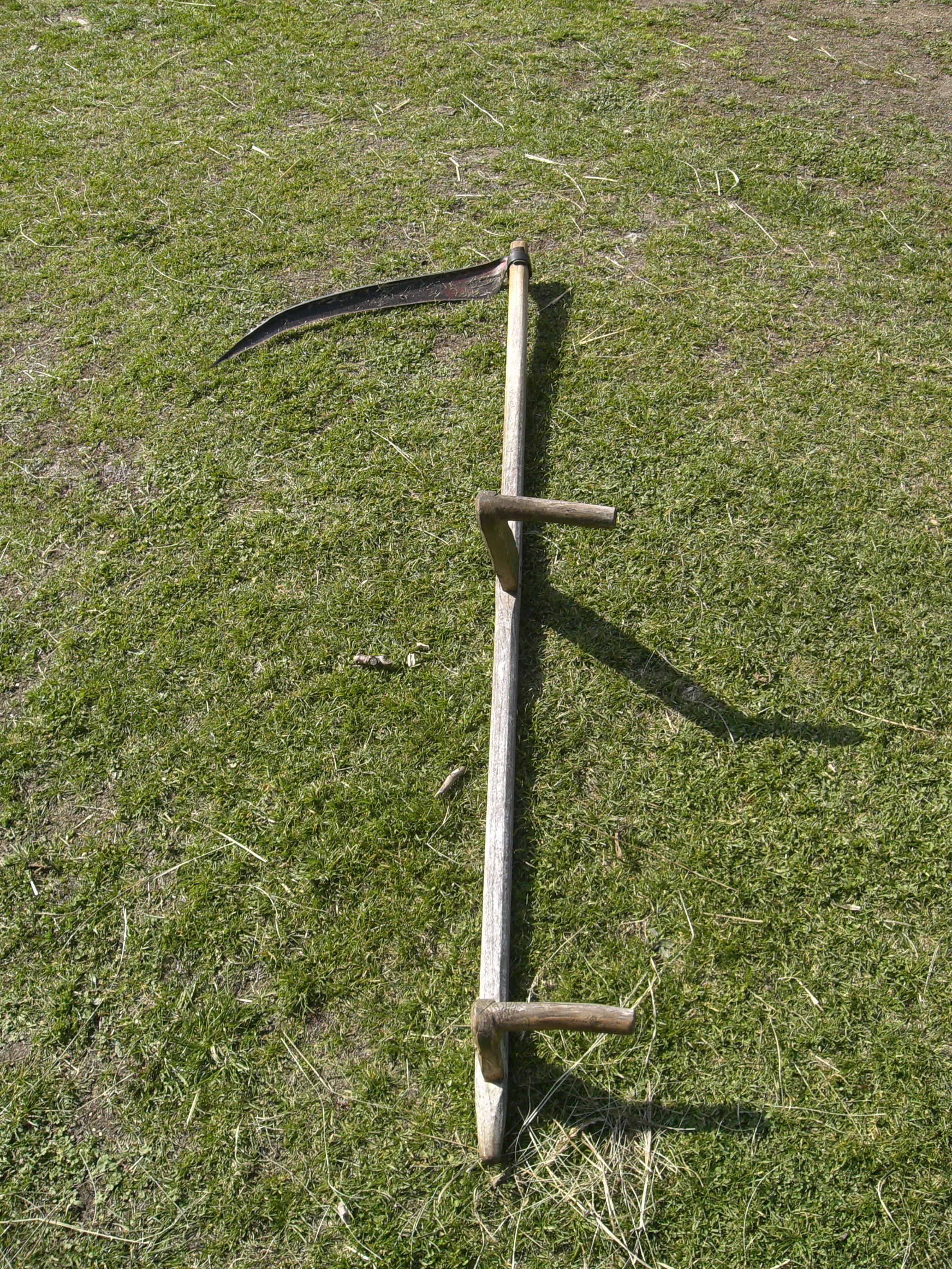 Scythes